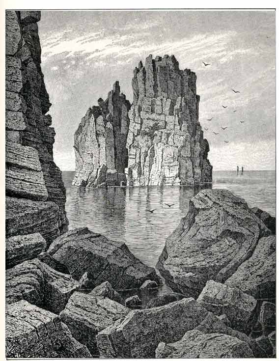 Island of Spinazzola